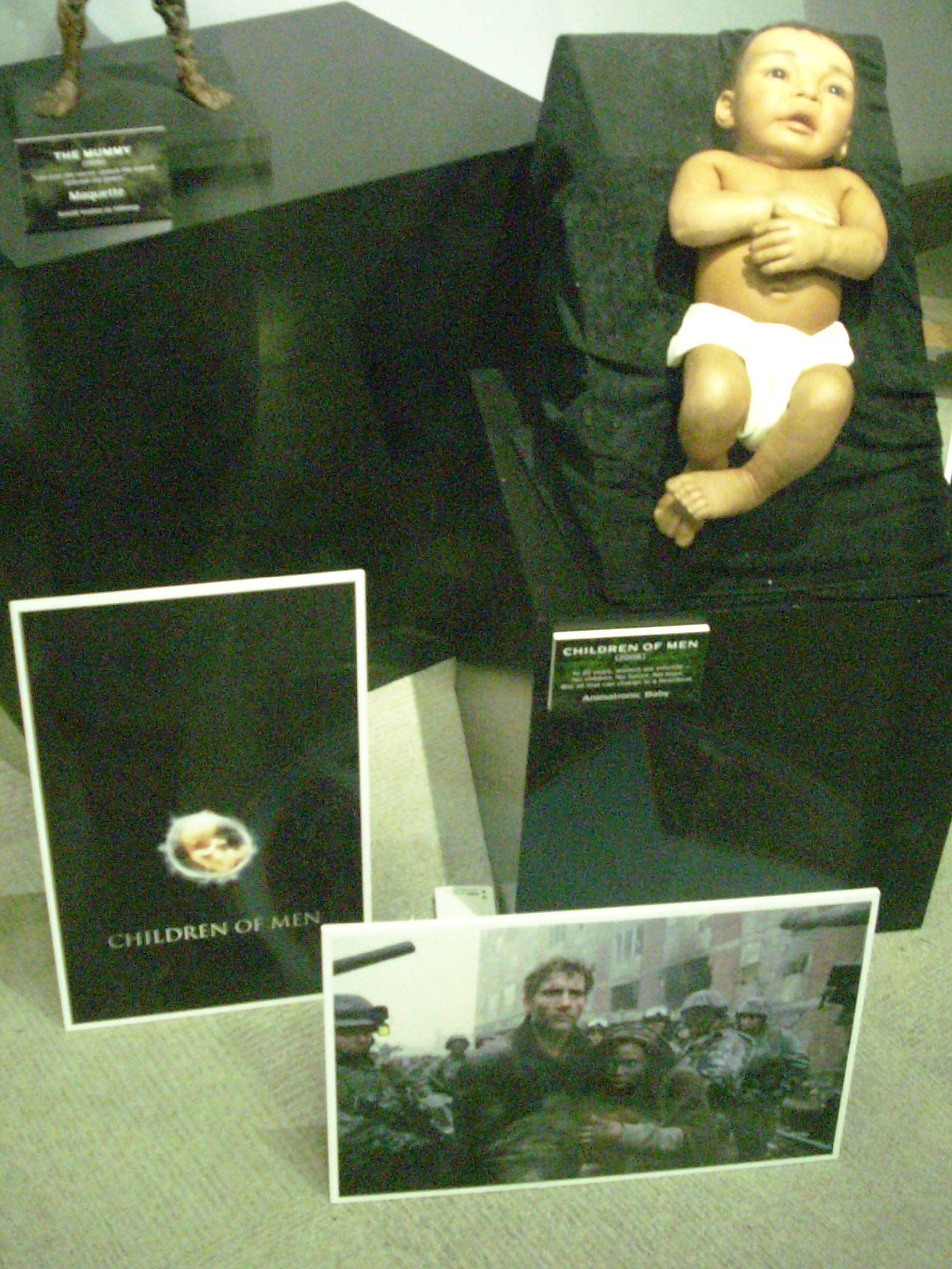 baby doll used for the movie Children of Men (Universal Studios California)